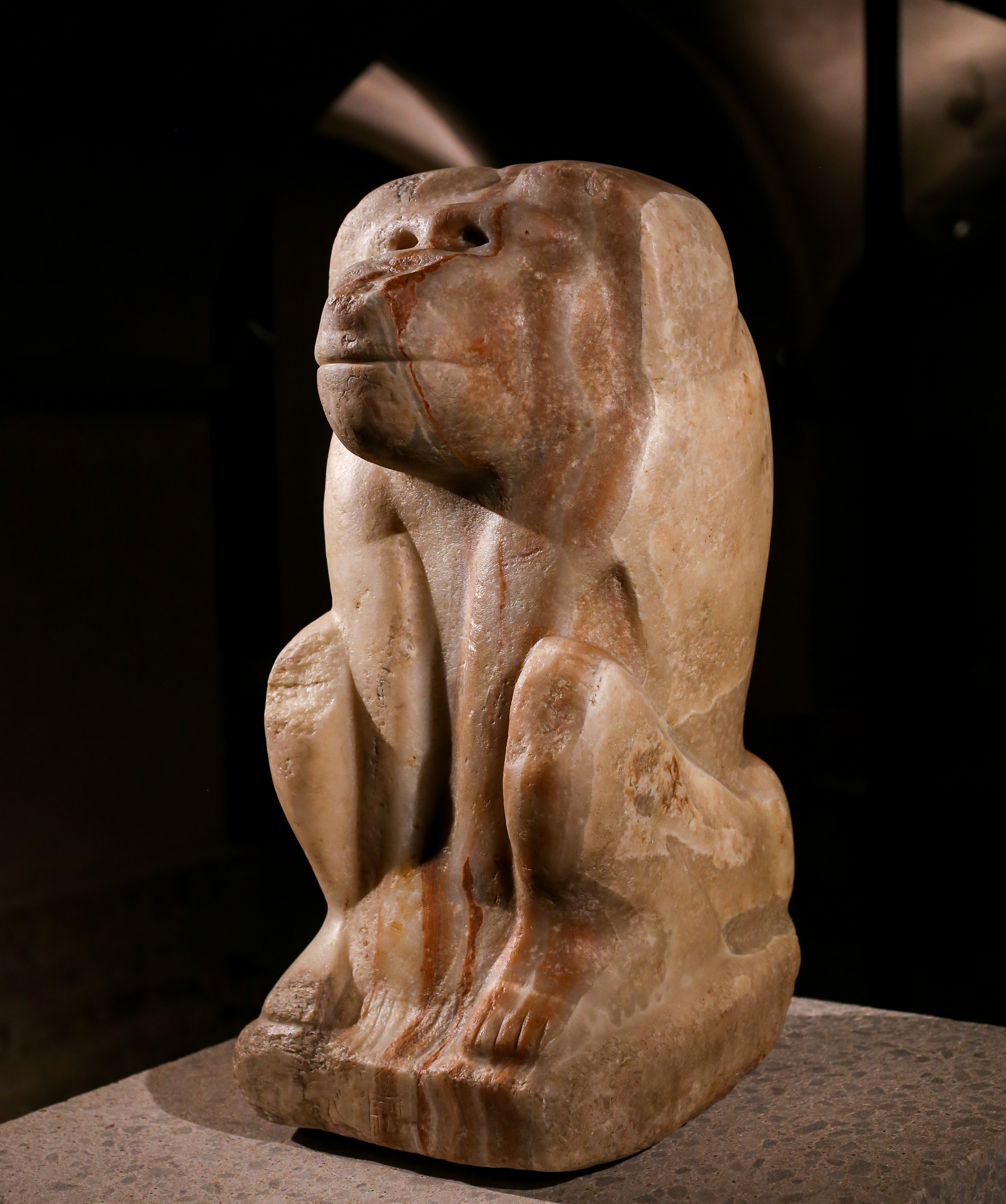 object type: statue - description: squatting baboon, carries the name inscription of king Narmer (founder of the 1. dynasty and unifier of Egypt) - production place: Egypt - period / date: 1. dynasty, 3100-3000 BC - material: calcite alabaster - height: 52 cm - findspot: Egypt - museum / inventory number: Berlin, Neues Museum ÄM 22607 - Please note: The above museum permits photography of its exhibits for private, educational, scientific, non-commercial purposes. If you intend to use the photo for any commercial aime, please contact the museum and ask for permission.